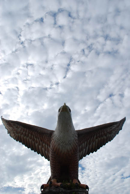 Langkawi Eagle Square.